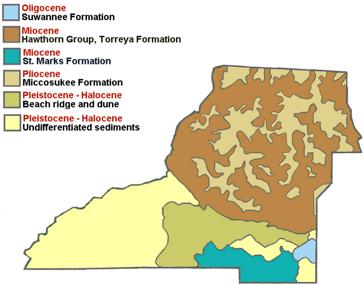 Geological map of Leon County, Florida displaying all forms of rock deposited from the Miocene to Pleistocene-Halocene. Based on USGS work by Thomas G. Scott, Kenneth M. Campbell, Frank R. Rupert, et al.